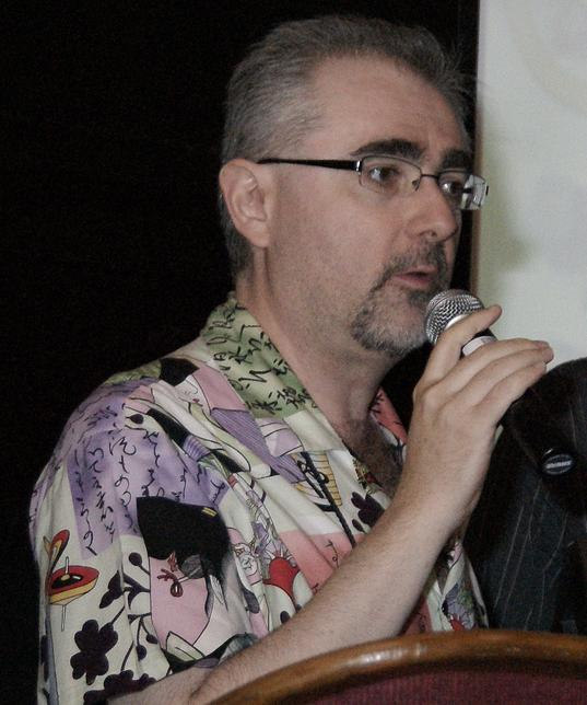 Robin Laws at the 2012 ENnies.